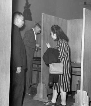 Legislative representative election in 1948, China